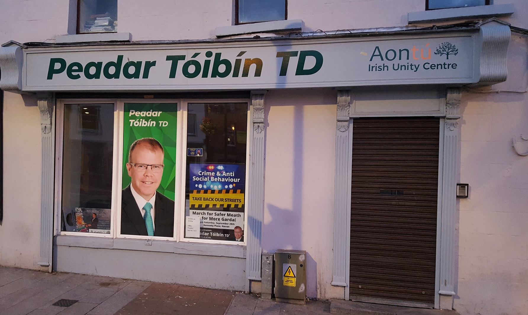 Peadar Tóibín constituency office and the Aontú Irish Unity Centre is located in Market Square in Navan, county Meath's county town.